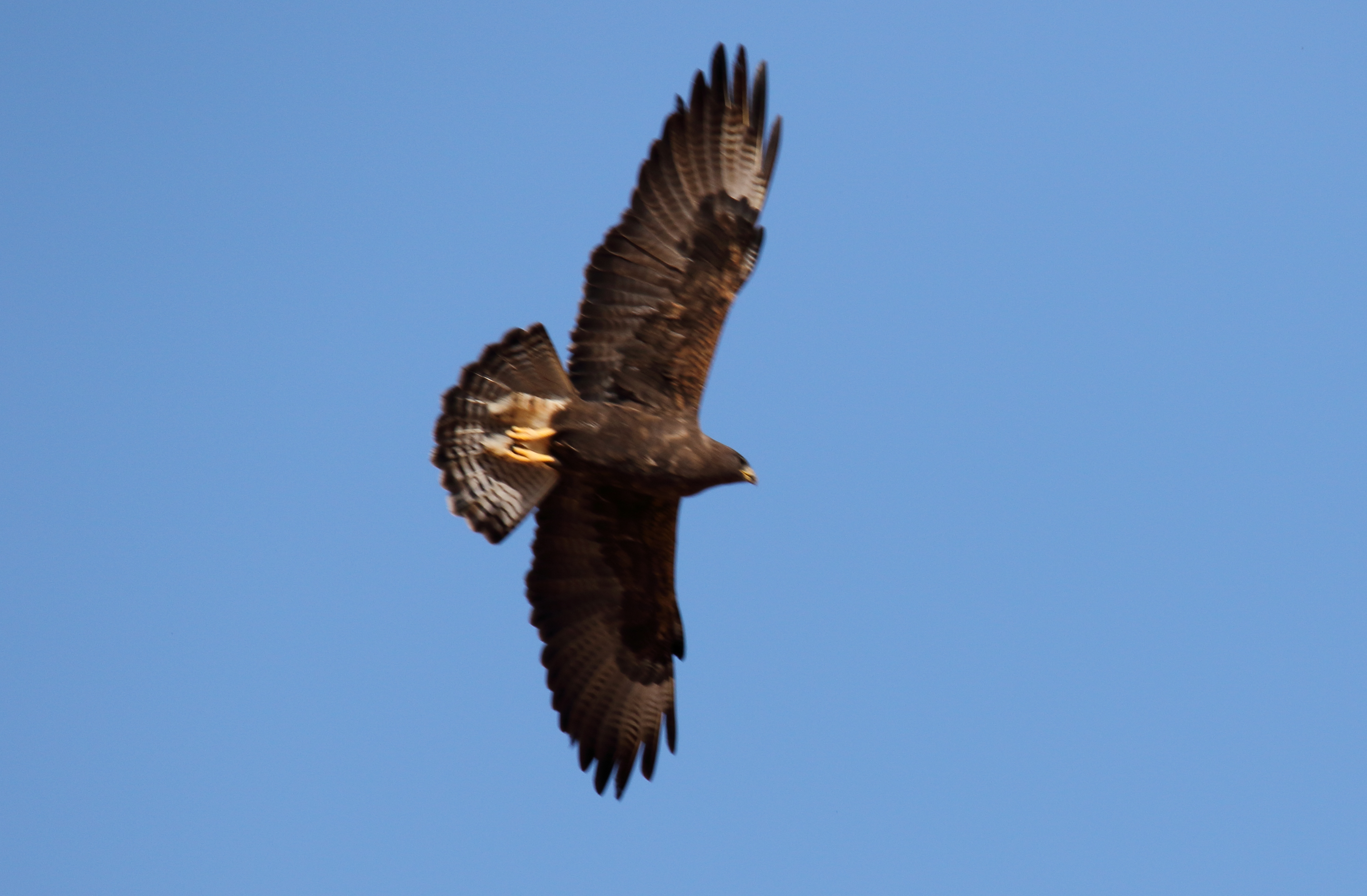 Dark morph. Photographed as a migrant in Little Rainbow Valley, Goodyear AZ.